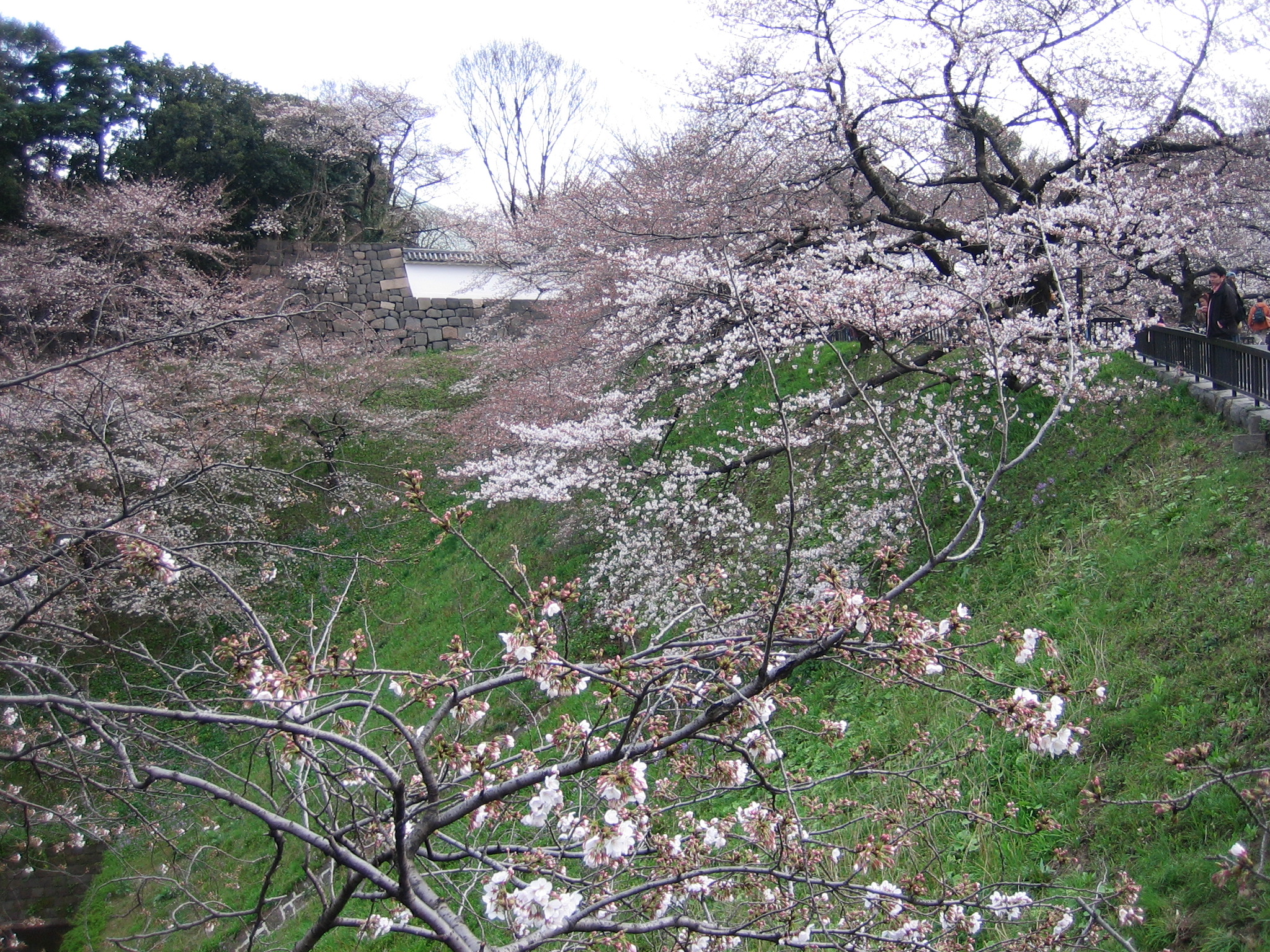 The outer limits of the Imperial Palace in Tokyo.